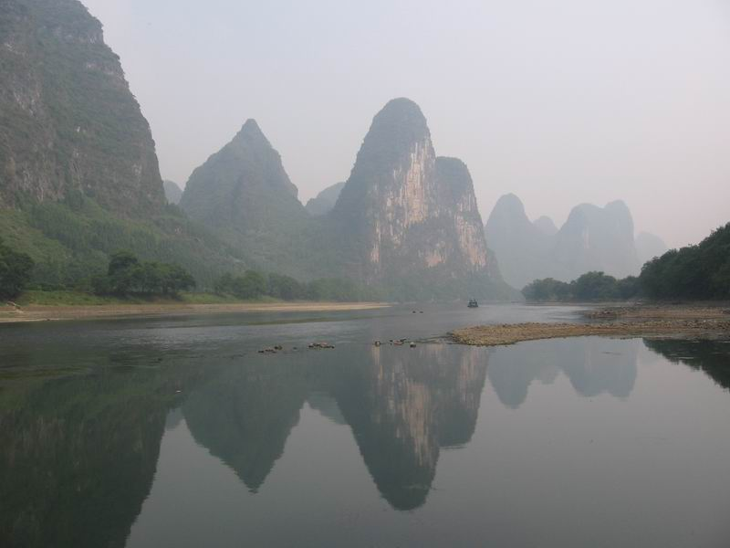 View from the Lijiang (Li) River, near Yangshuo — in the Guangxi Autonomous Region of Southeastern China. With region's landmark Karst limestone rock formations, within the UNESCO South China Karst World Heritage Site. Credits Taken by Ariel Steiner.